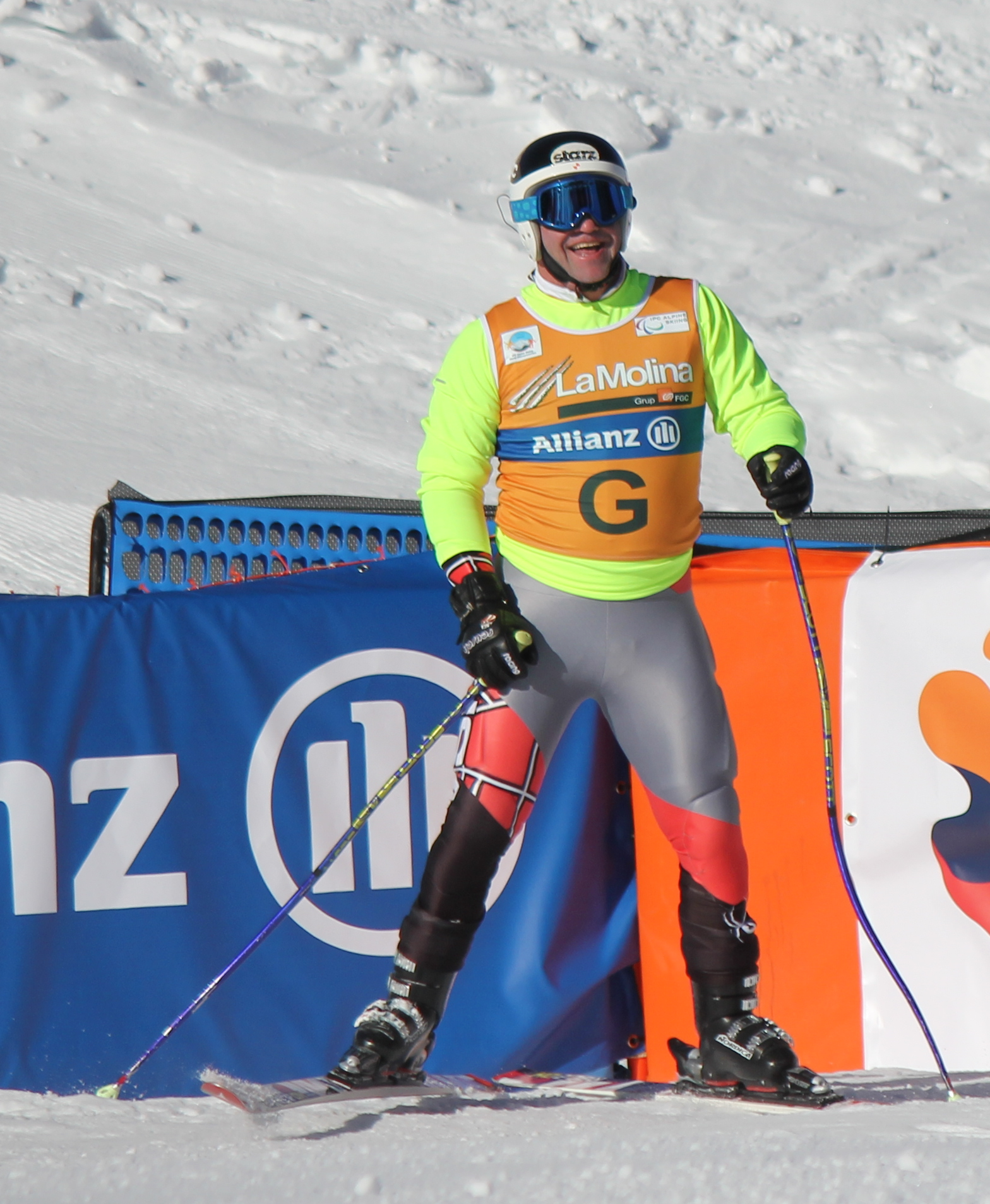 La Molina, Spain on the downhill competition day at the 2013 IPC Alpine World Championships. Men's visually impaired skier Mark Bathum and guide Sean Ramsden of the United States.